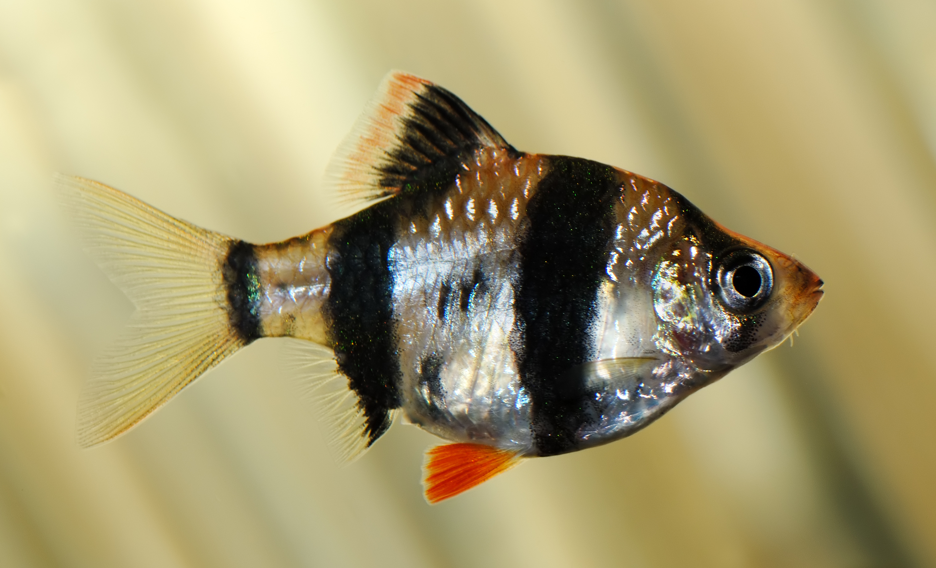 This image shows a Tiger barb (Puntius tetrazona).